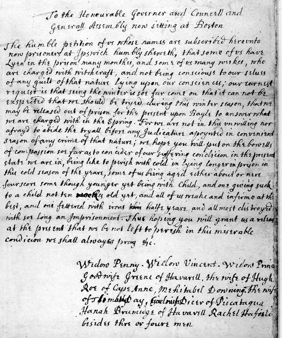 "Petition for bail from accused witches"